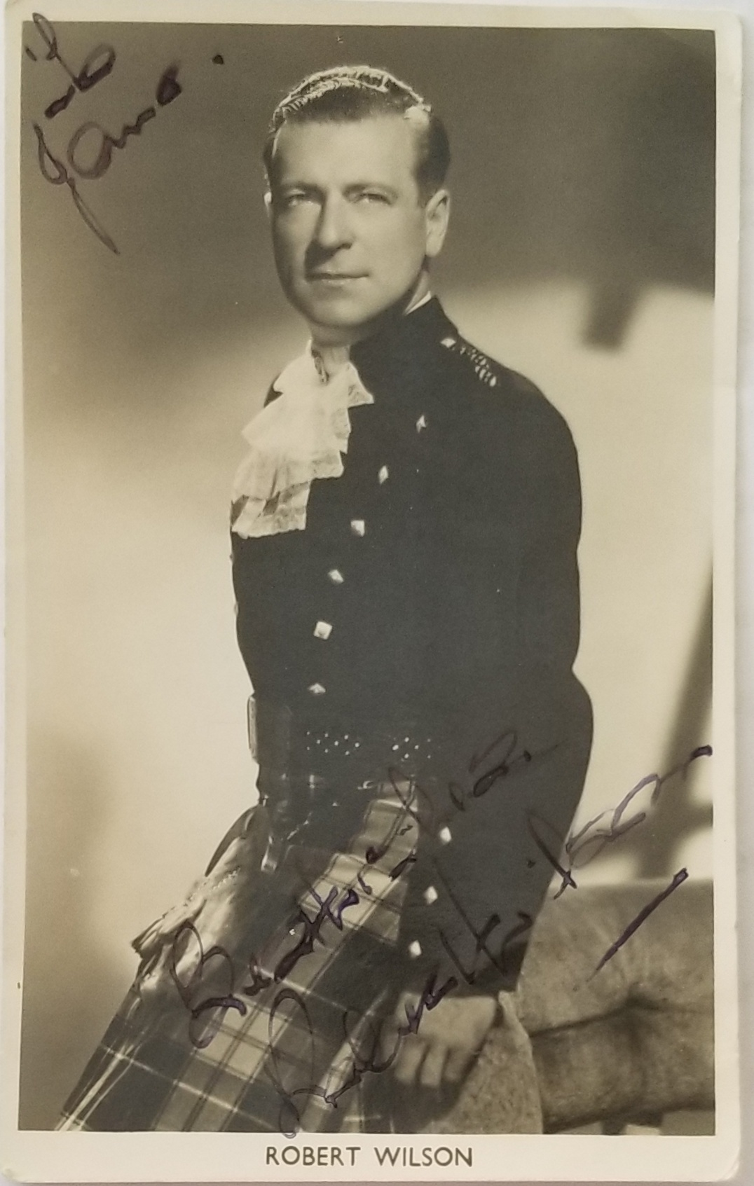 A signed handout photo from Robert Wilson, Scottish Tenor, sent to my mother Jane Gold Woods, on July 8, 1948.